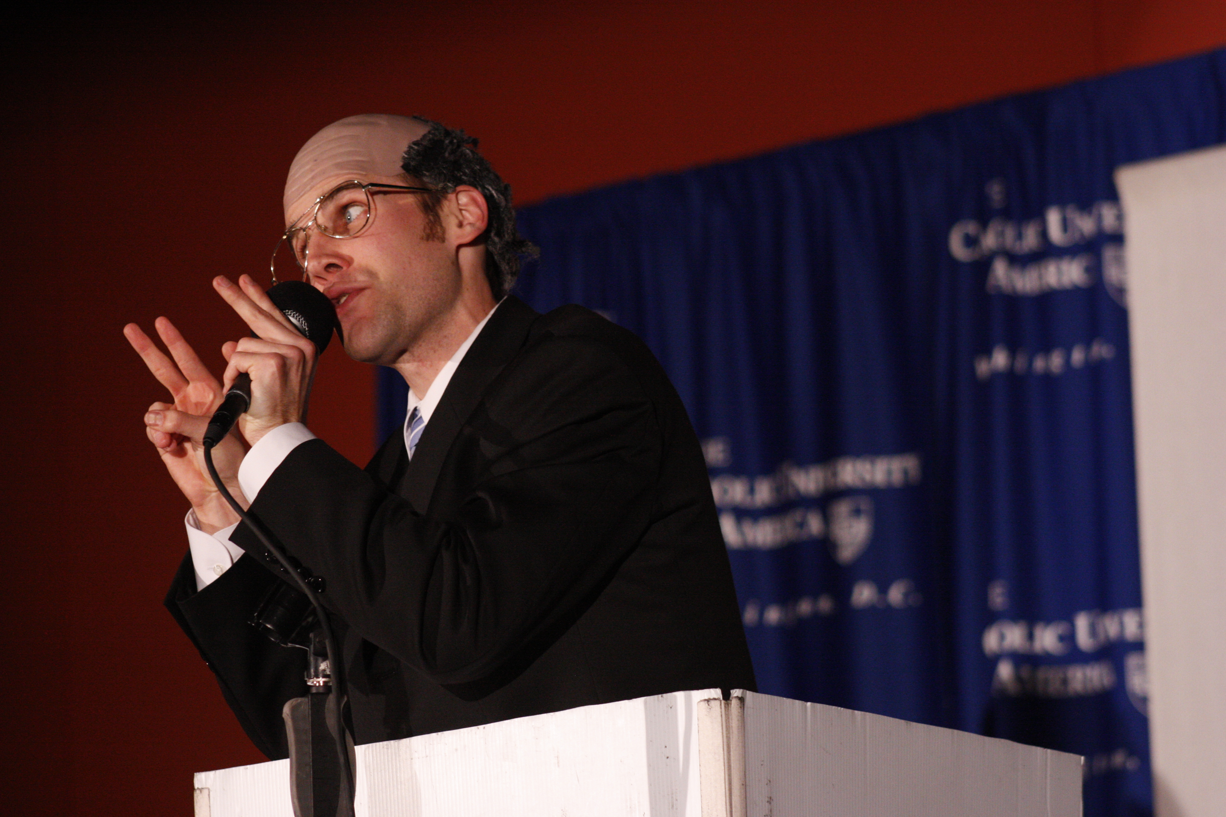 The Capitol Steps Perform at CUA Photo by Ryan J. Reilly / The Tower